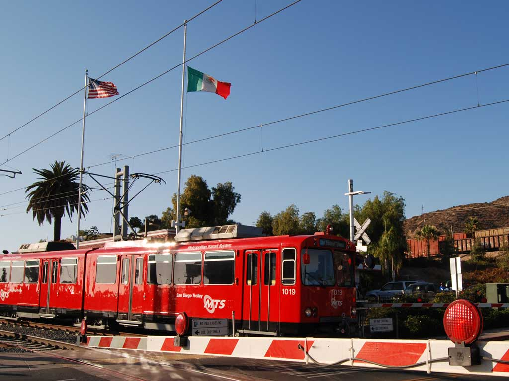 the San Diego trolley, at San Ysidro by the US-Mexico border.